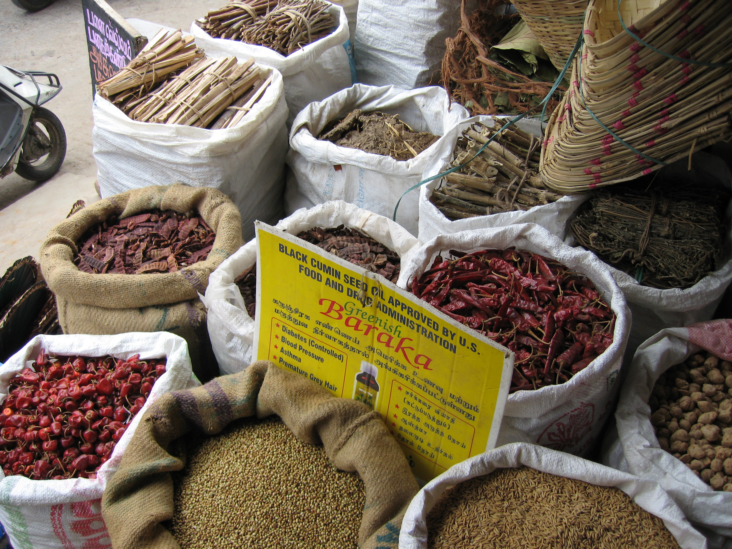 Picture taken at a Indian spice store